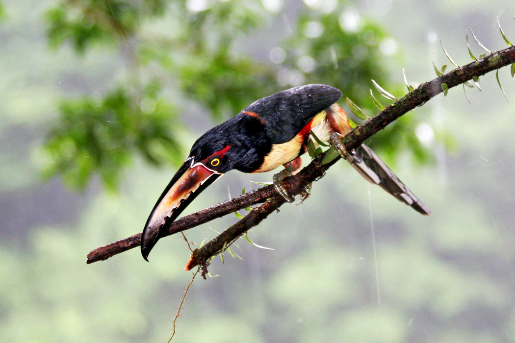 Collared Aracari photo taken at Selva Verde Lodge, Costa Rica.